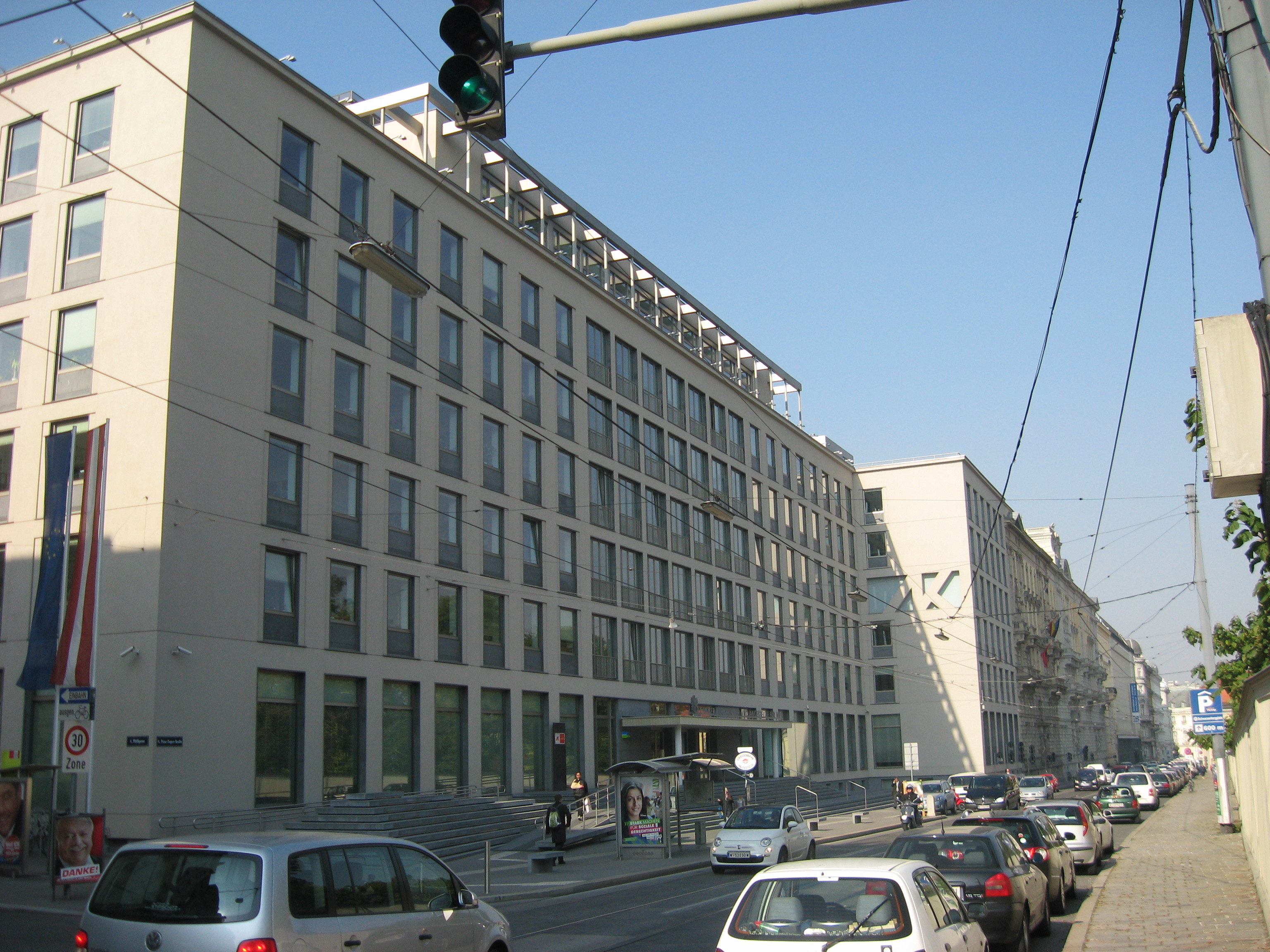 Arbeiterkammer Building Wien, Wieden, Prinz Eugen Strasse 20-22. Built on site of former Rothschild palace